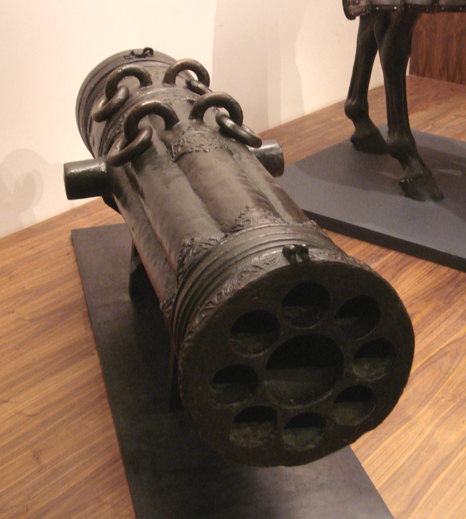 Early_16th_century_Ottoman_volley_gun